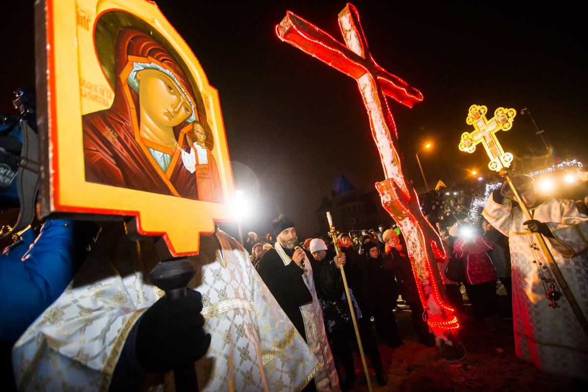 Vodokreschi in Kaliningrad 2017-01-19